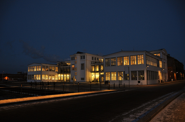 Danish Design School, Holmen 2011